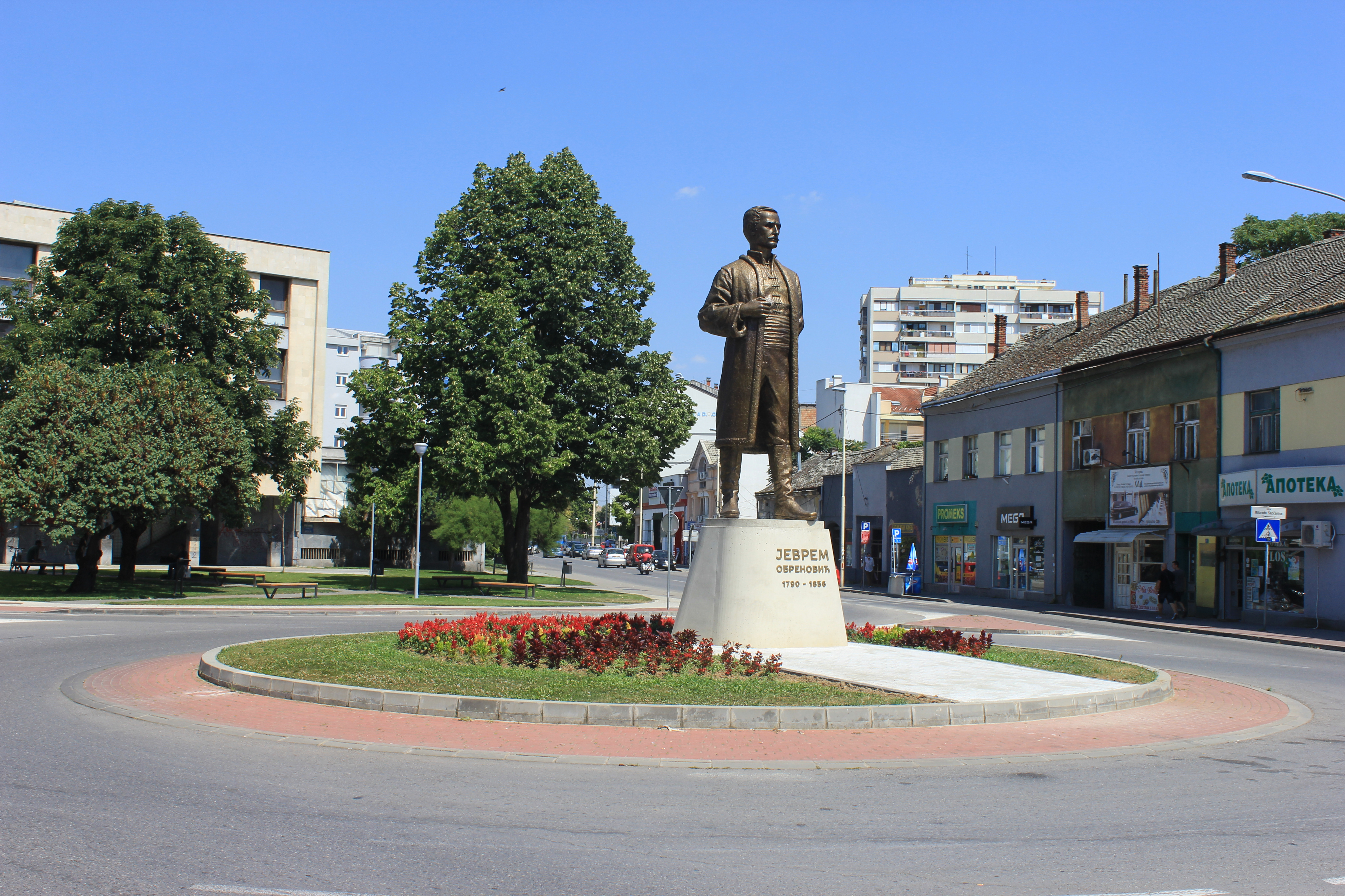 A monument to Jevrem Obernović, brother of prince Miloš Obernović. Jevrem was obor-knez of nahi of Šabac during time of Ottoman, a tittle simmilar to mayor. He was only Turkish prissoner to come alive out of imfamous Nebojša tower where before him many died including Greek revolutionar Riga of Fera. Jevrem broght many new things to Šabac and Serbia, he had first rsidency in Serbia Jevremov konak, first piano, fist pharmacy, first glass window and first chariots. Monument is aproximetly 4 meters high and was placed in summer of 2020